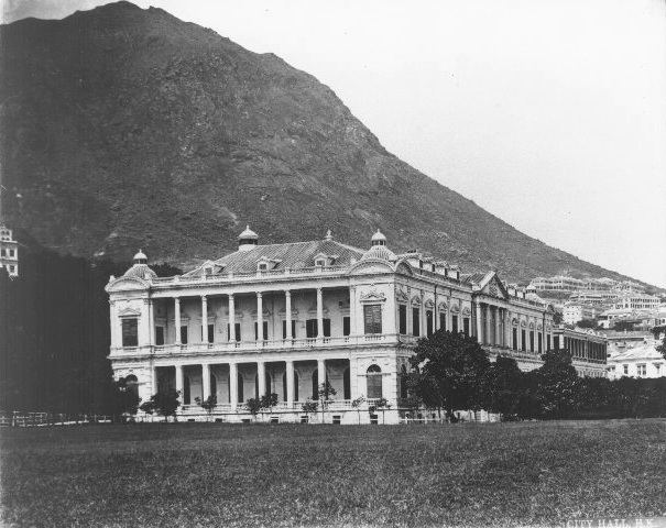 City Hall of Hong Kong, c.1875, author unknown